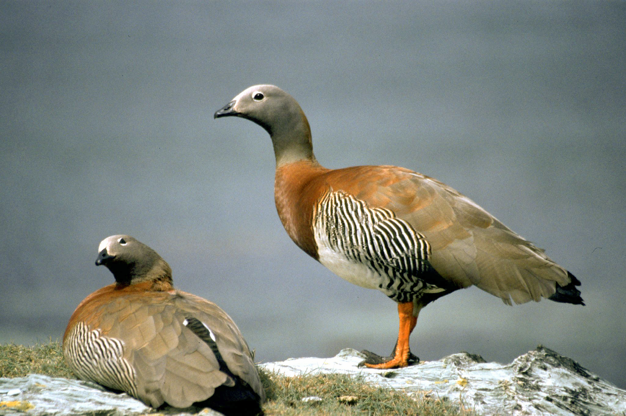 Two Ashy-headed Geese in Ushuaia, Tierra del Fuego, Argentina.